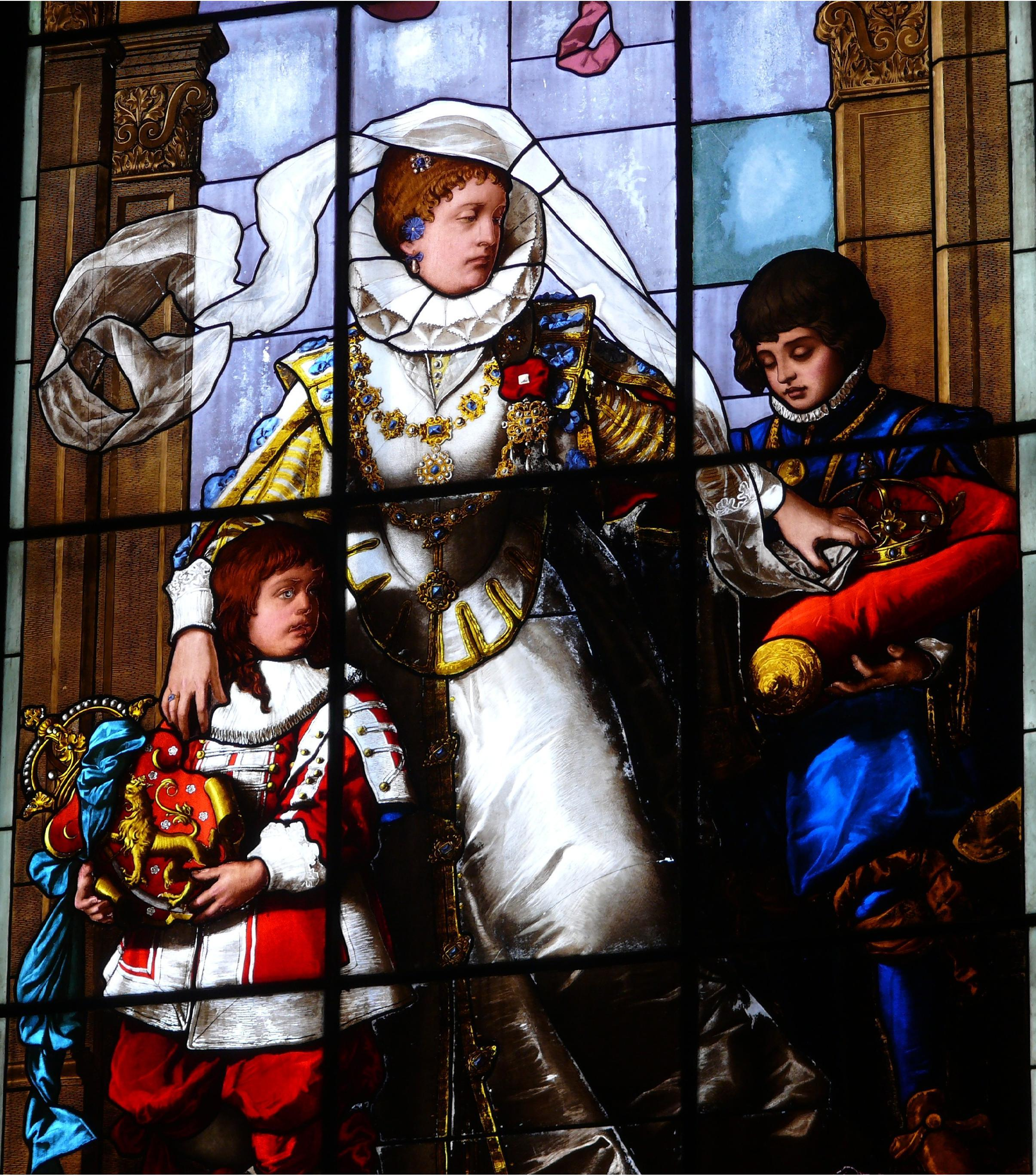 Queen Catherine of Sweden (1568) with 2 pages (not her children) as depicted above her grave in a window of Turku Cathedral in Finland